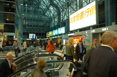 Ogilvie Transportation Center (train station) in Chicago, IL Photo taken by user DaveofCali (David Liu)